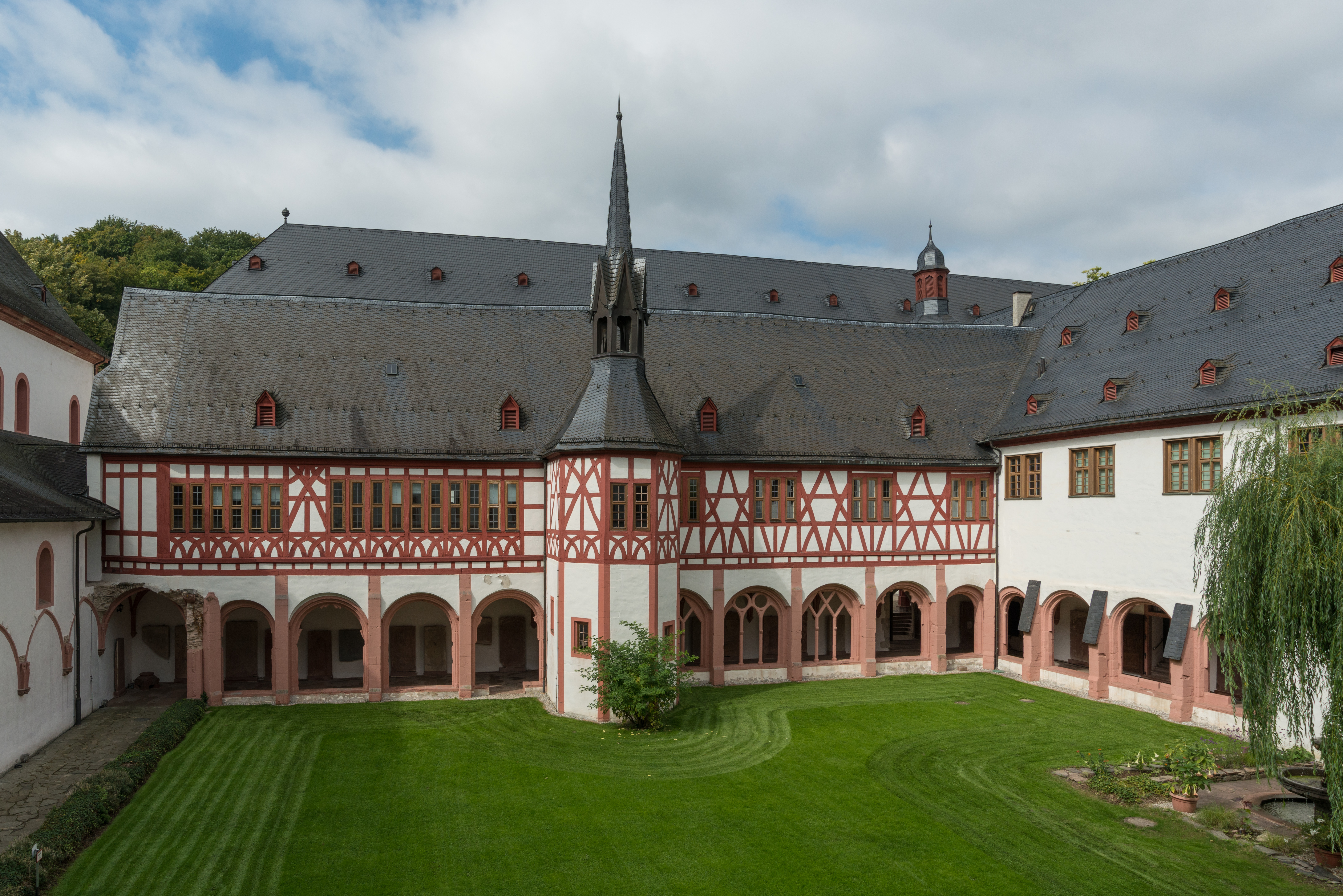 The cloister of Kloster Eberbach as seen from the first floor